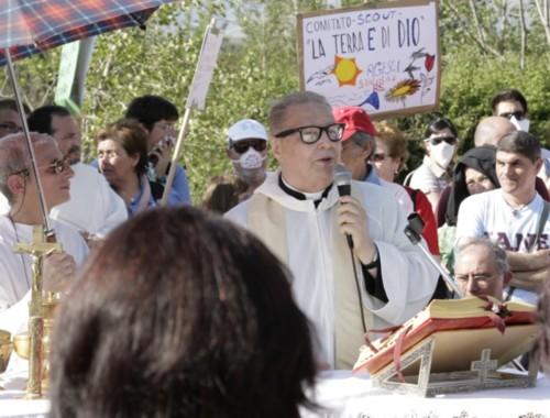 Bishop Nogaro celebrating a mass